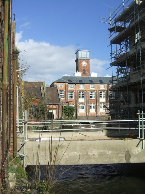 Redler's at Dudbridge This conservation area industrial complex is being restored beautifully.